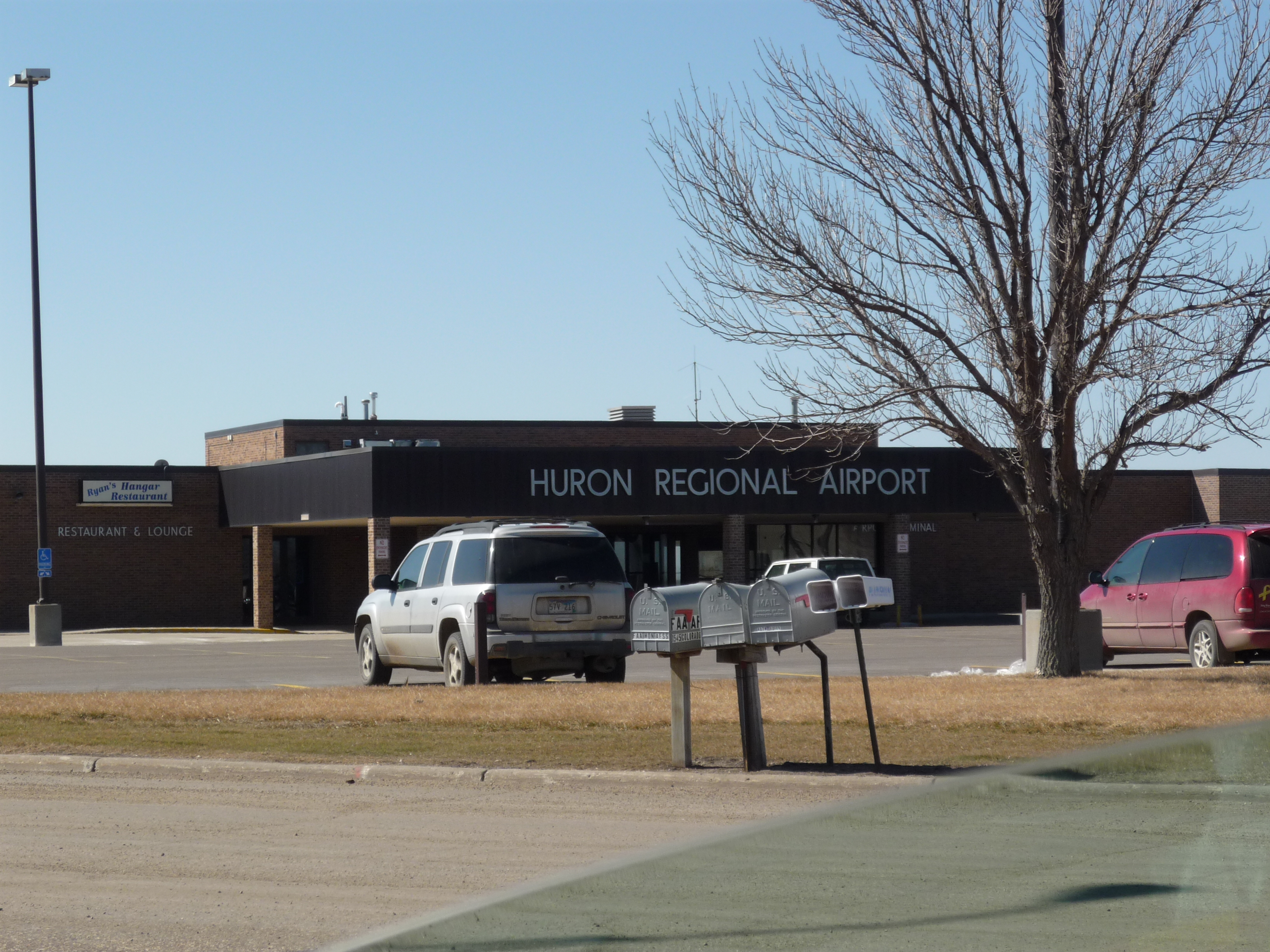 To Show the Huron Airport